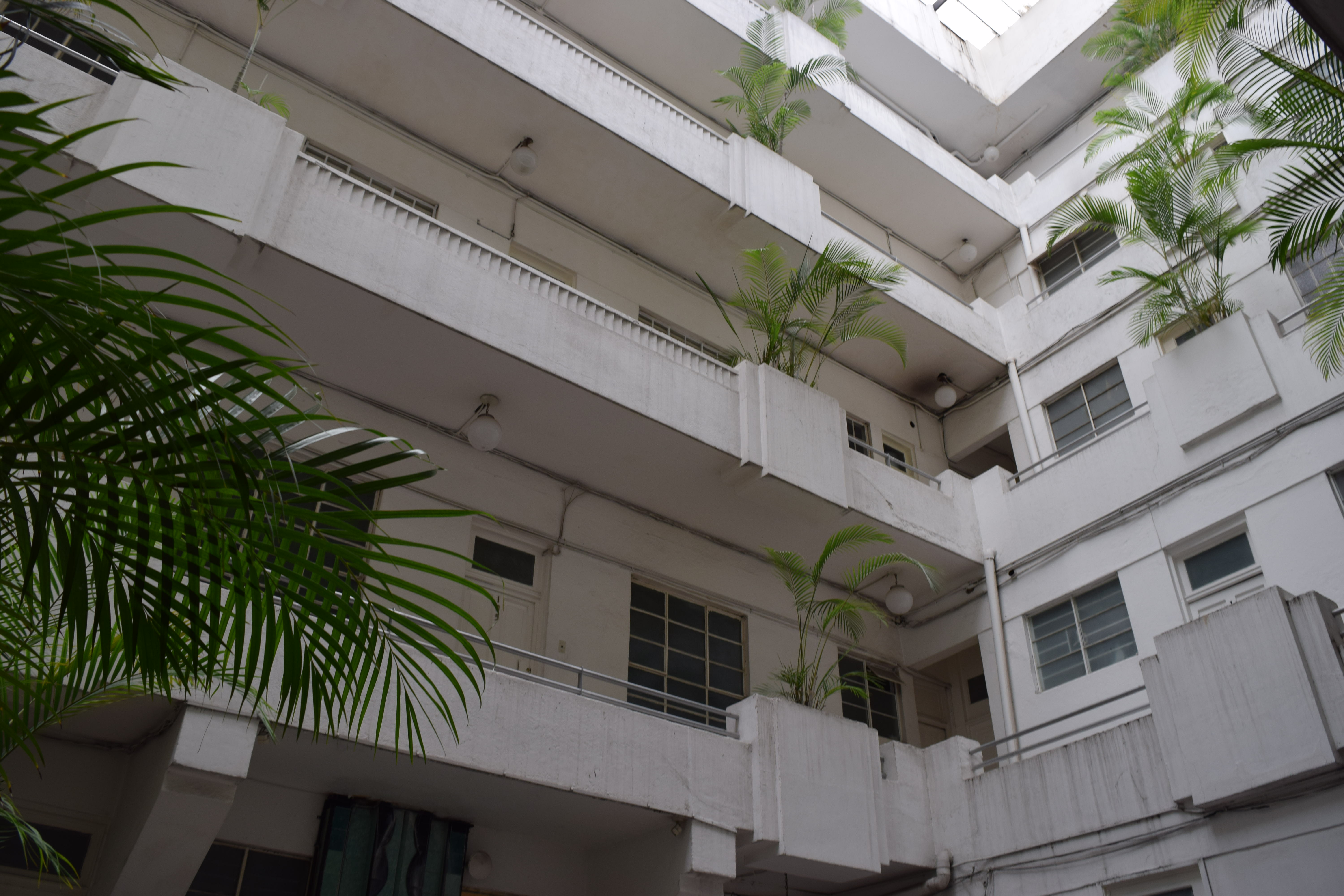 Interior of the Rio de Janeiro building, also known as "Casa de las brujas" ("House of the witches"), located at Colonia Roma in Mexico City.